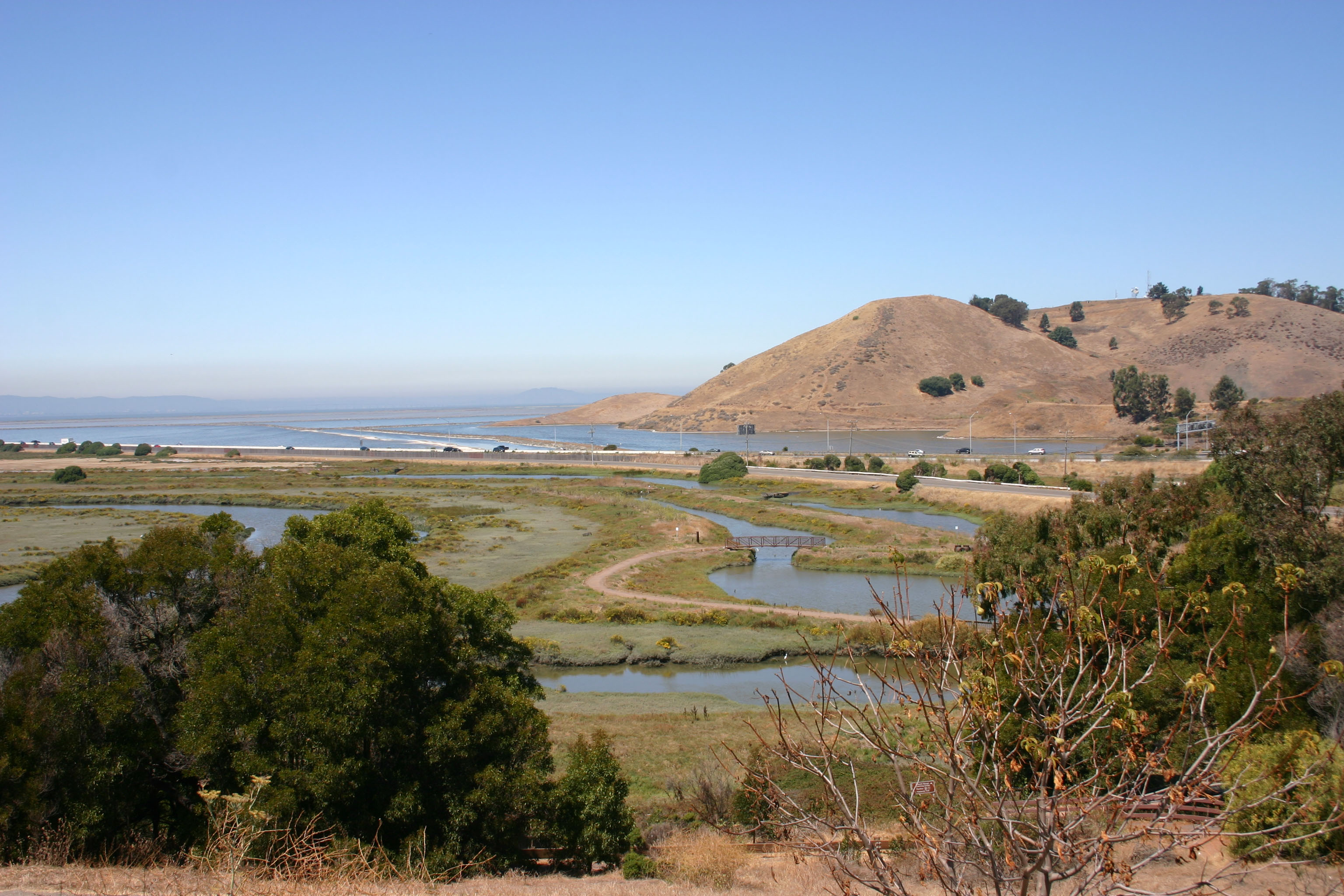 Salt marsh with the Coyote Hills serving as backdrop.